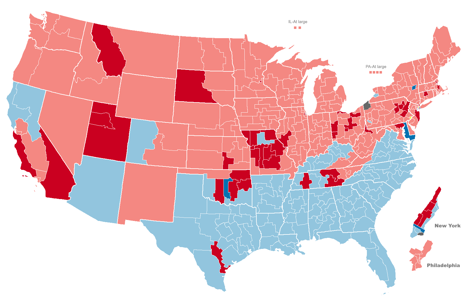 This map shows the results of the 1920 House Elections.